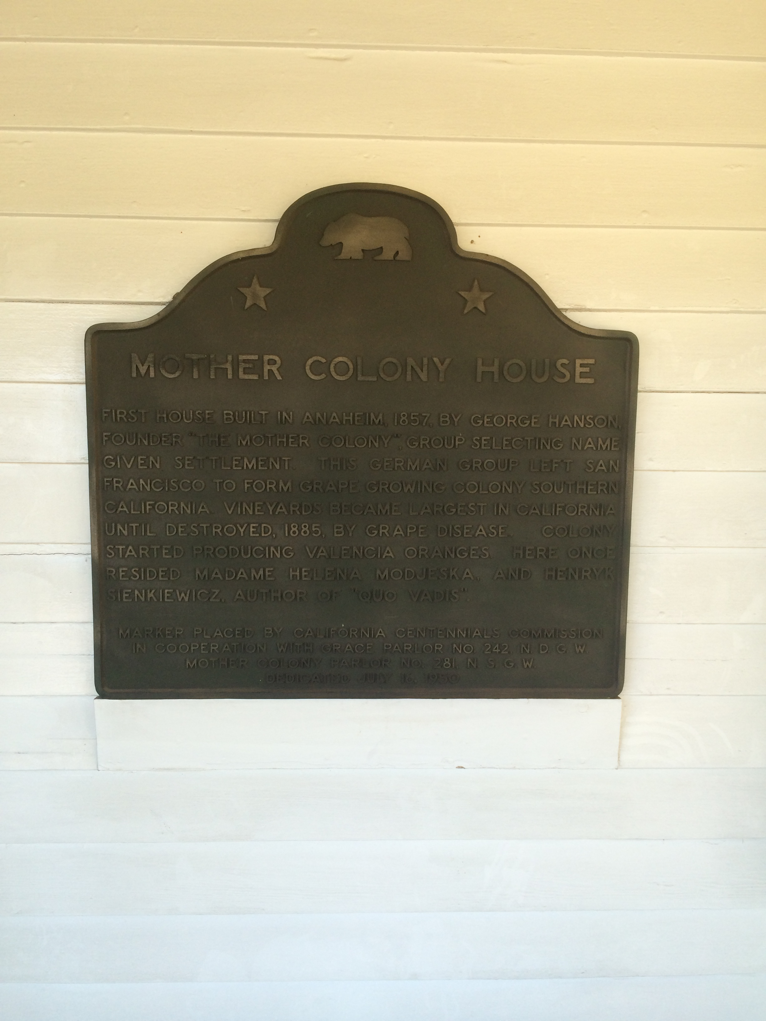 Pioneer House of the Mother Colony